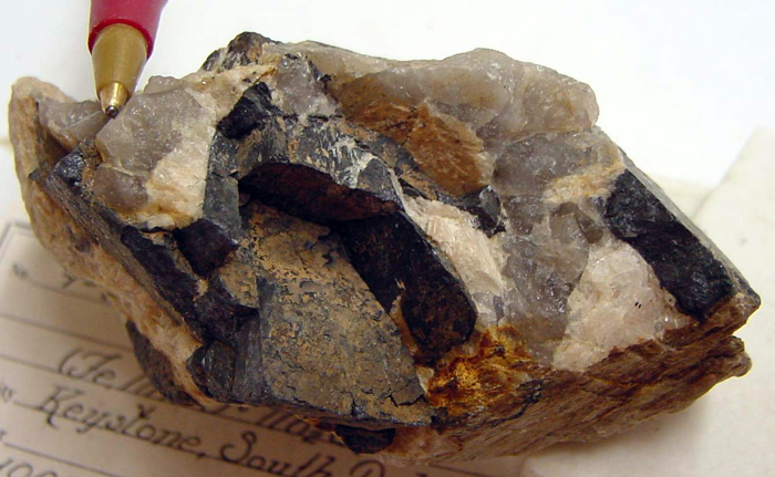 Columbite. Pen for scale. Collected in Keystone, South Dakota, 1962. Mineral collection of Bringham Young University Department of Geology, Provo, Utah. Photograph by Andrew Silver. BYU index 4-8038, (FeMn)O - Nb_2O_5.